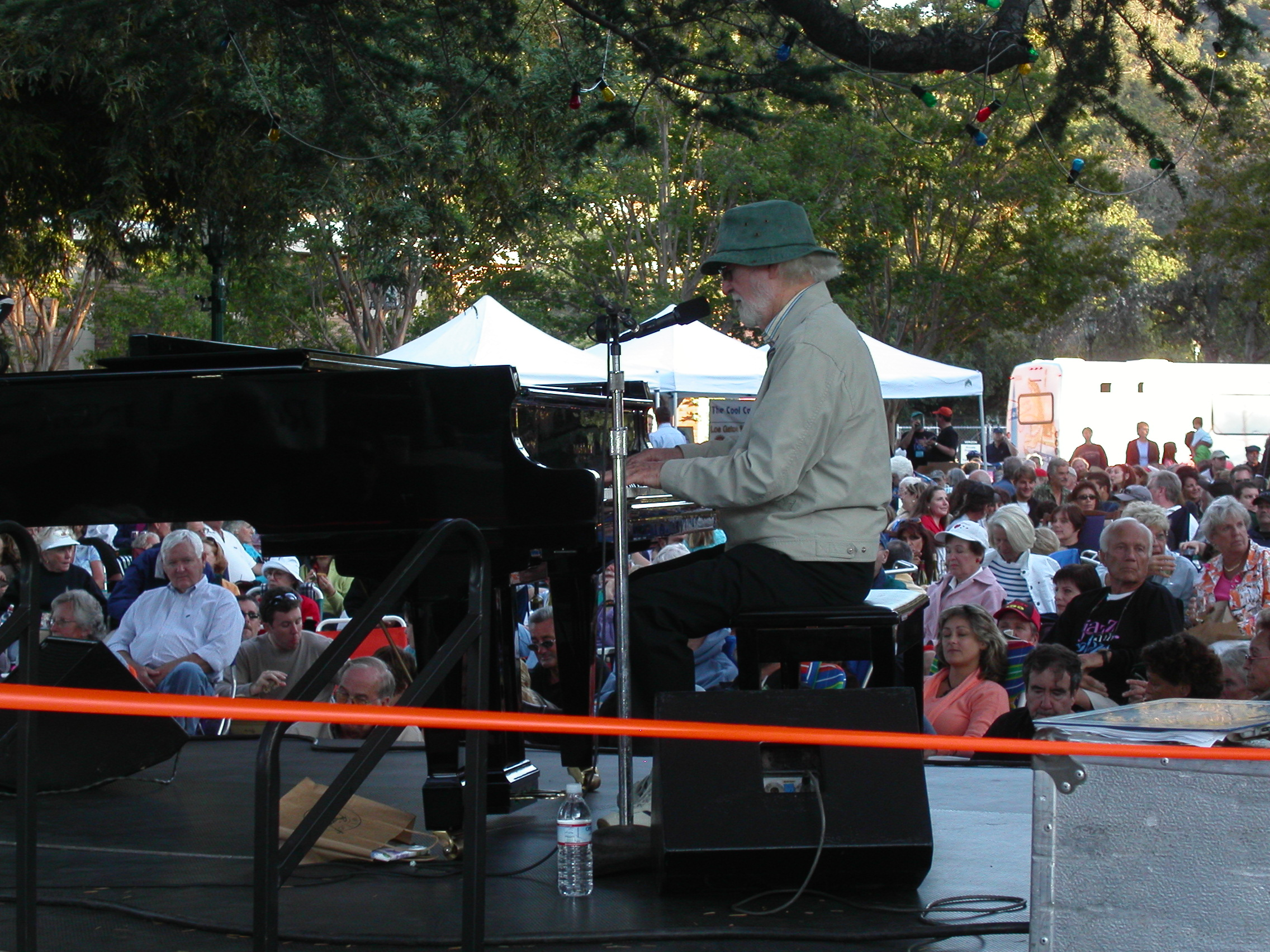 Mose Allison performing in Los Gatos, CA